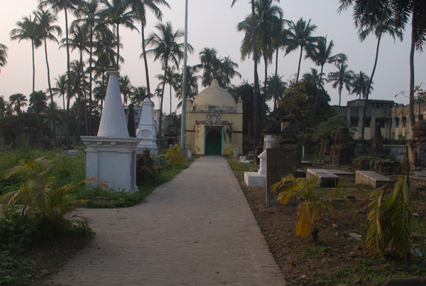 French Cemetery, Chandannagar